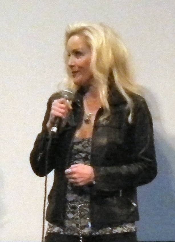 Cherie Currie at SXSW 2010 screening of The Runaways